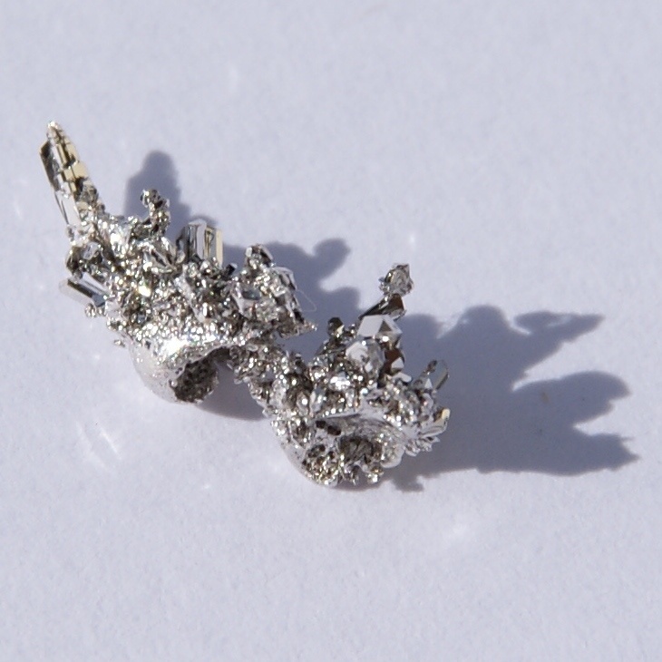 The noble metal palladium is very similar to platinum, and, like platinum, is often used for catalysts and for jewellery. Palladium is more reactive than platinum and less expensive than platinum. Palladium has excellent capability to absorb, store, and then release hydrogen.